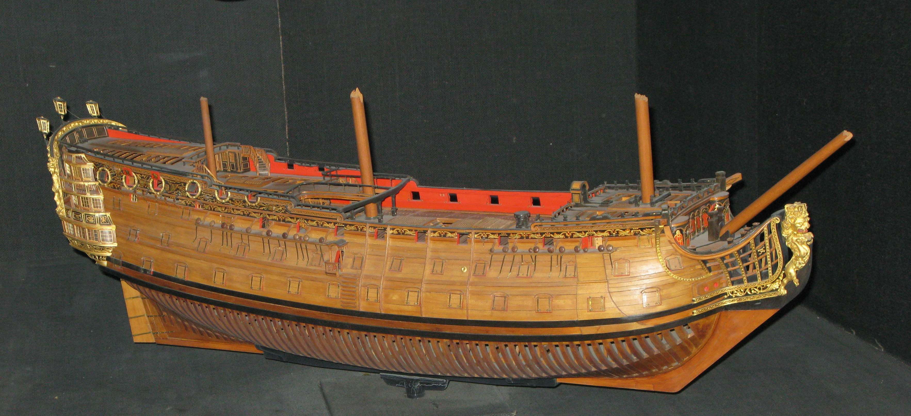 Photo of a model of the hull of 90 gun ship following the design of the 1706 establishment.